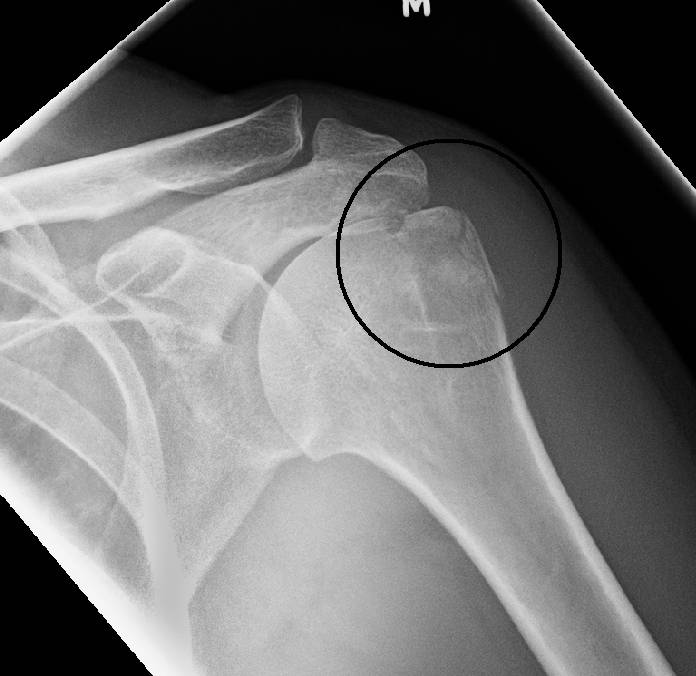 Fracture of the greater trochanter of the humerous